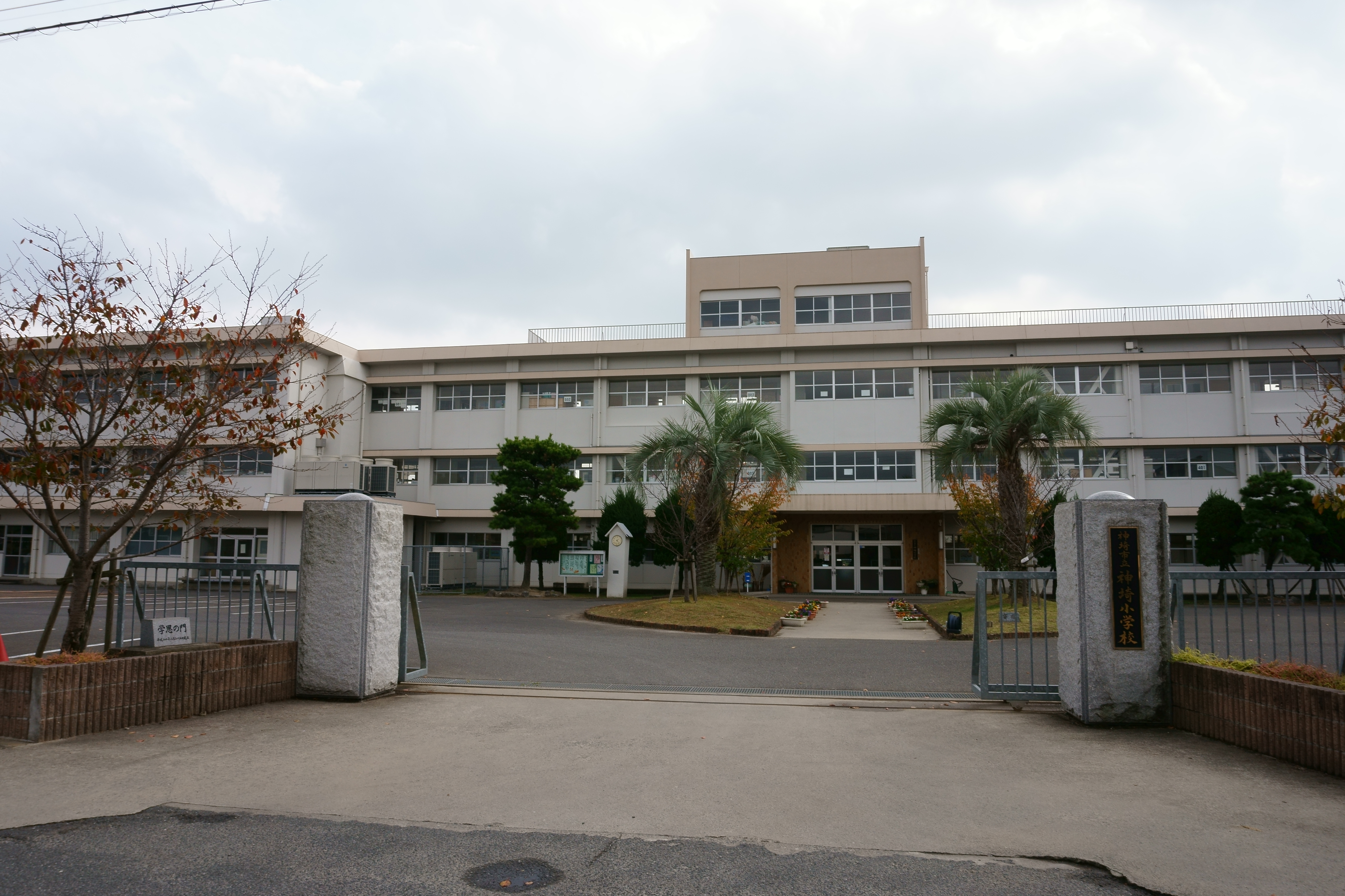 The front gate of Kanzaki Municipal Kanzaki Elementary School in Edagari, Kanzaki-machi, Kanzaki city.